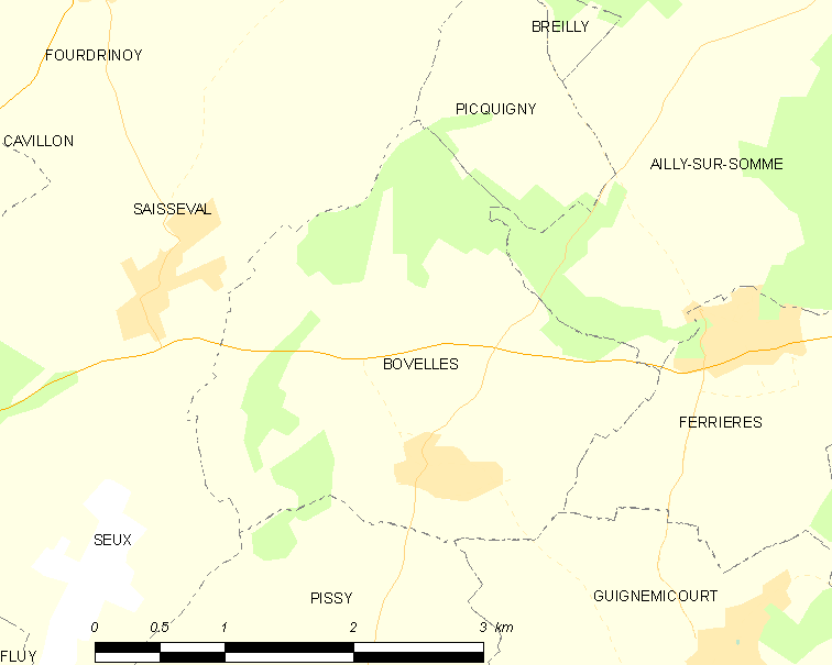 Map of French municipality Bovelles